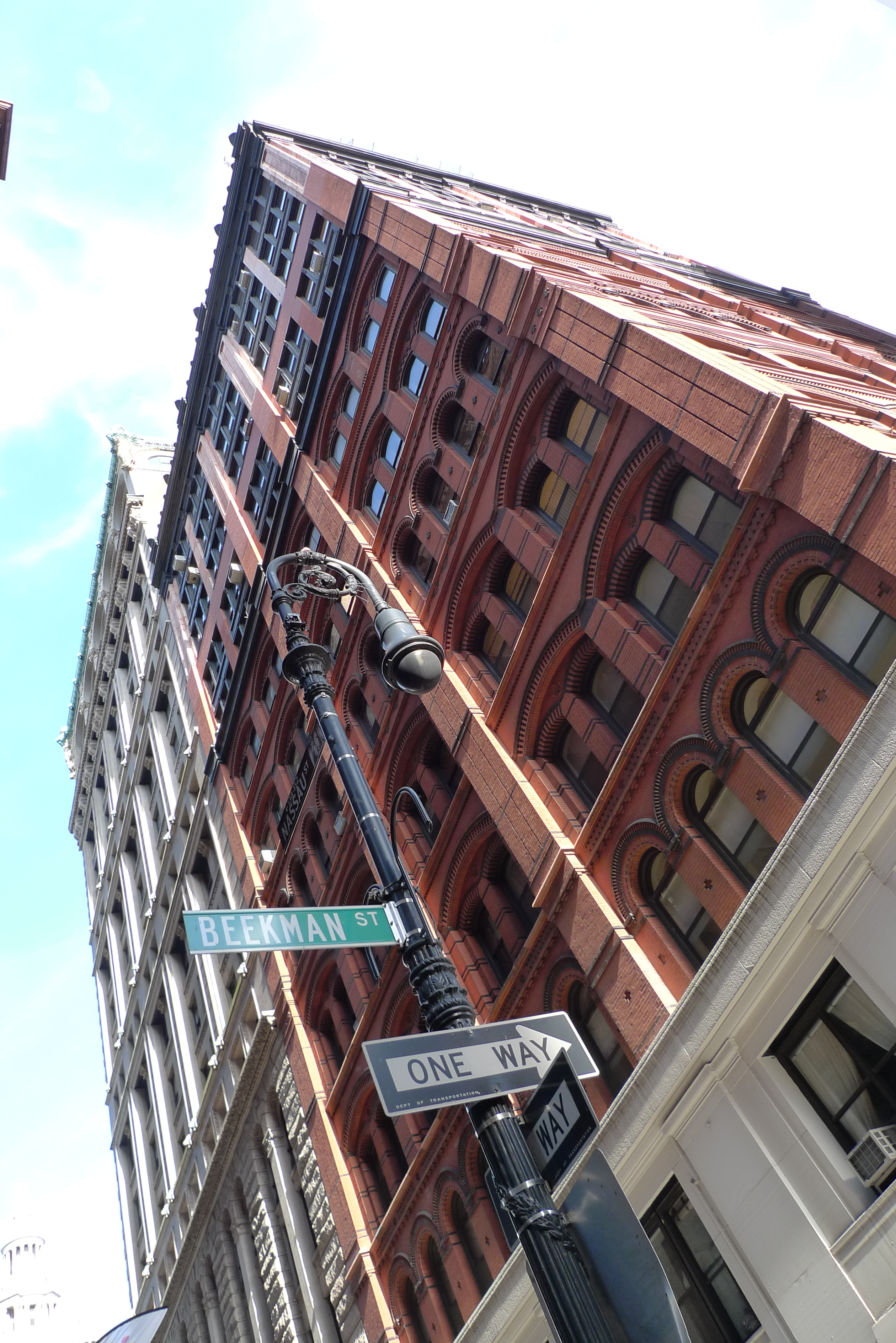 American Tract Society Building (left) and Morse Building (right) in New York City